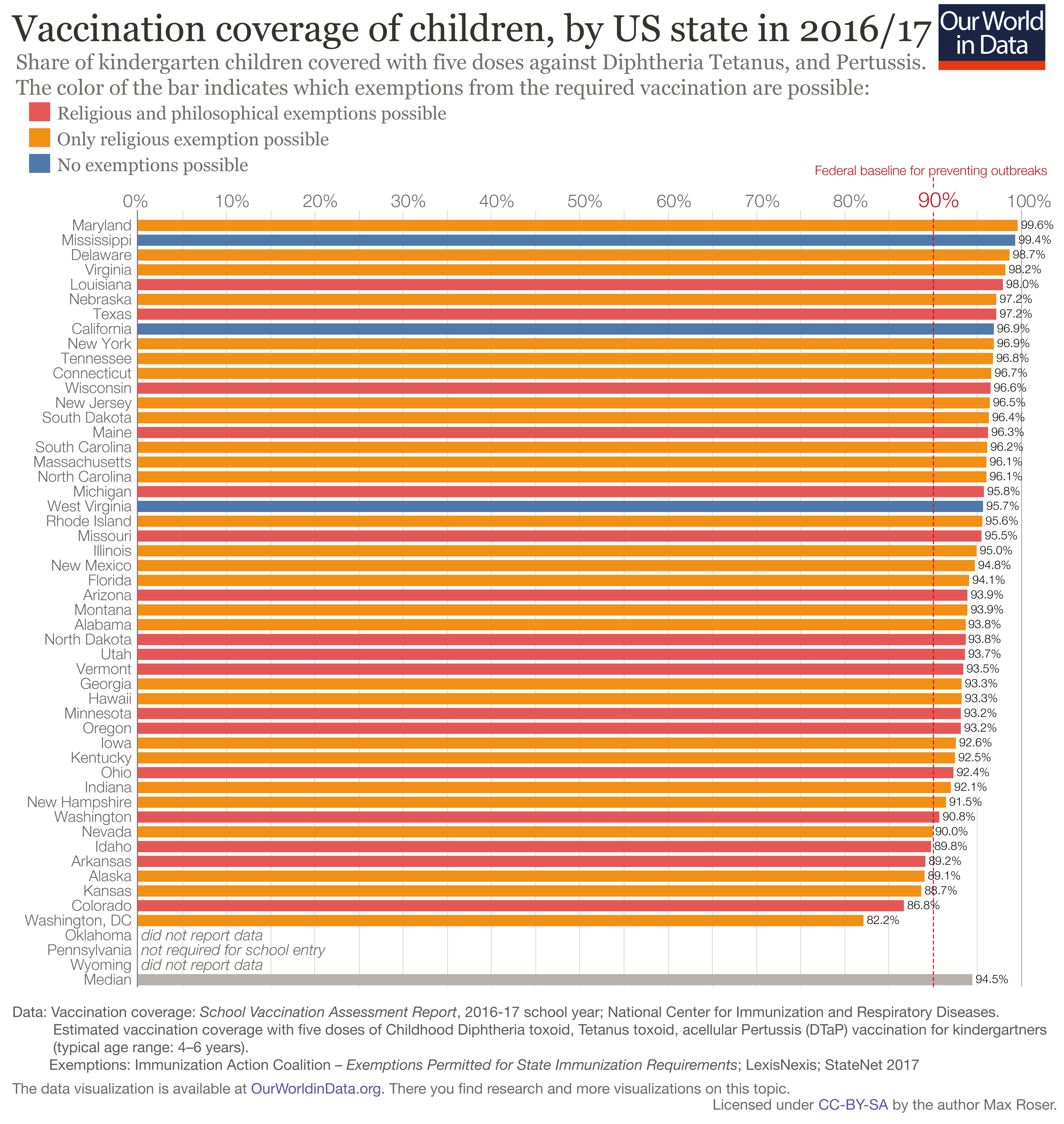 Graph of the 50 US states and Washingtong D.C. depicting vaccination rates and exemption status.